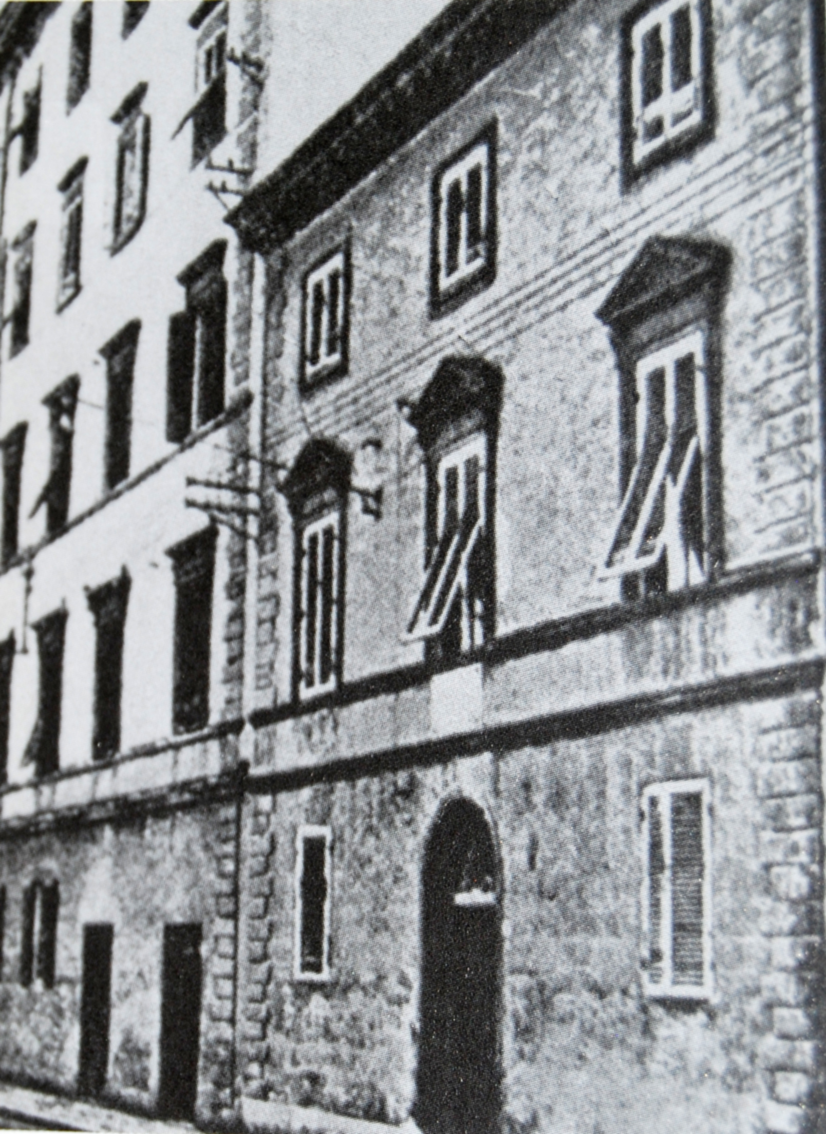 Natal House of Amedeo Modigliani in Livorno, Italy. picture dated Ca. 1903.